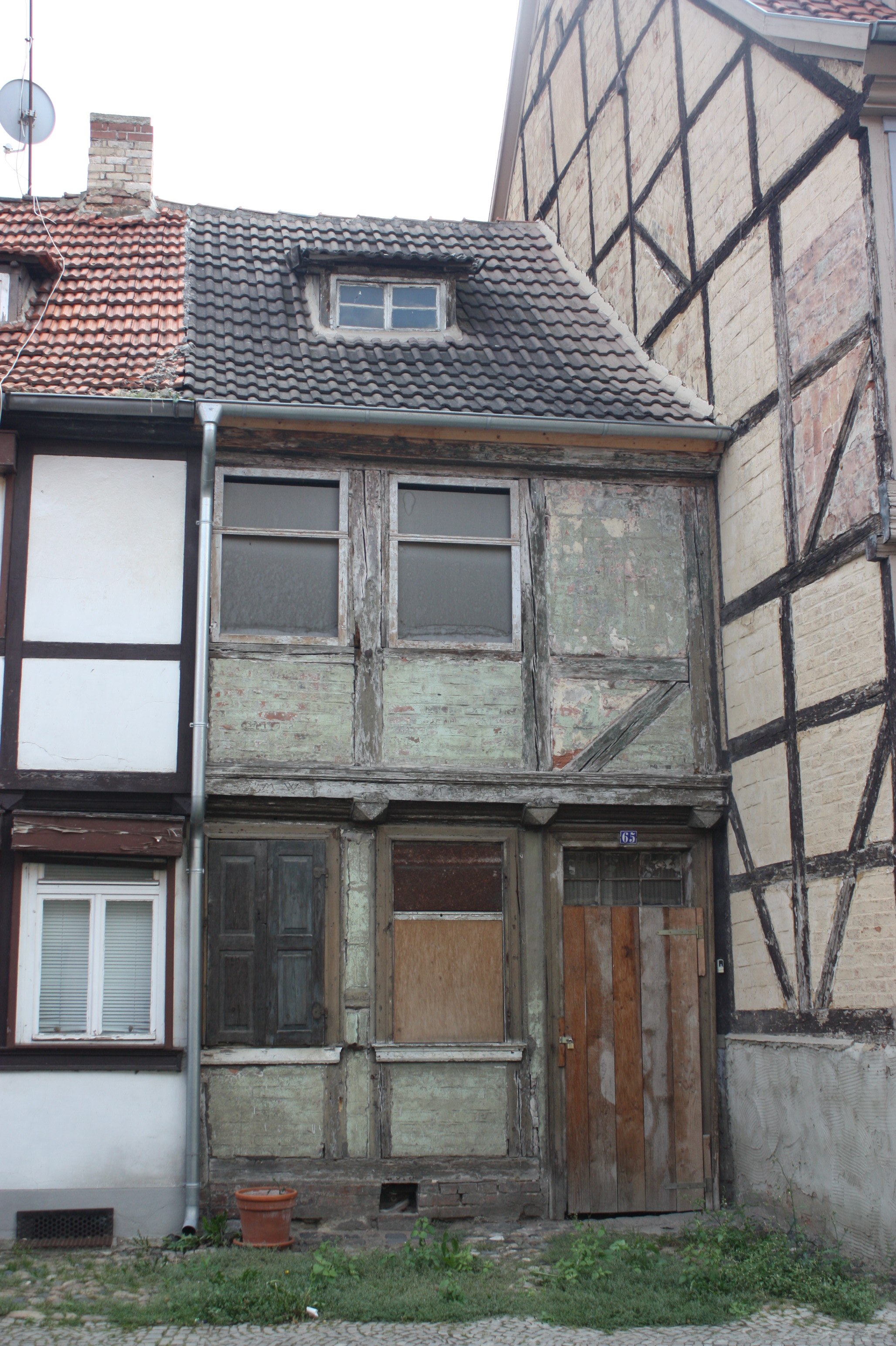 This is a photograph of an architectural monument.It is on the list of cultural monuments of Quedlinburg Augustinern 65 in Quedlinburg